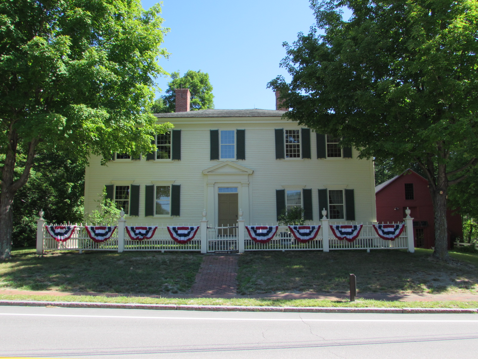 Former childhood home of American President Franklin Pierce in Hillsborough, New Hampshire, now operated as a historic house museum. August 2016.